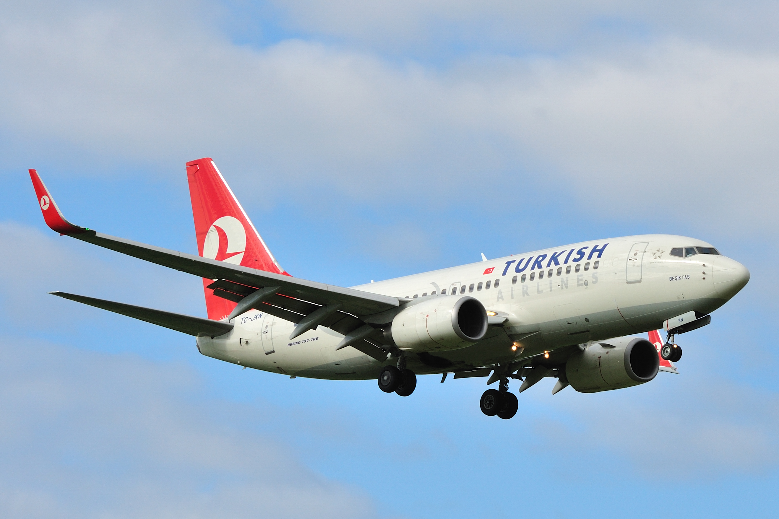 Switzerland, Canton of Zürich, spotting in the approach area of runway 14 of Zurich International Airport on a day with frequent showers.